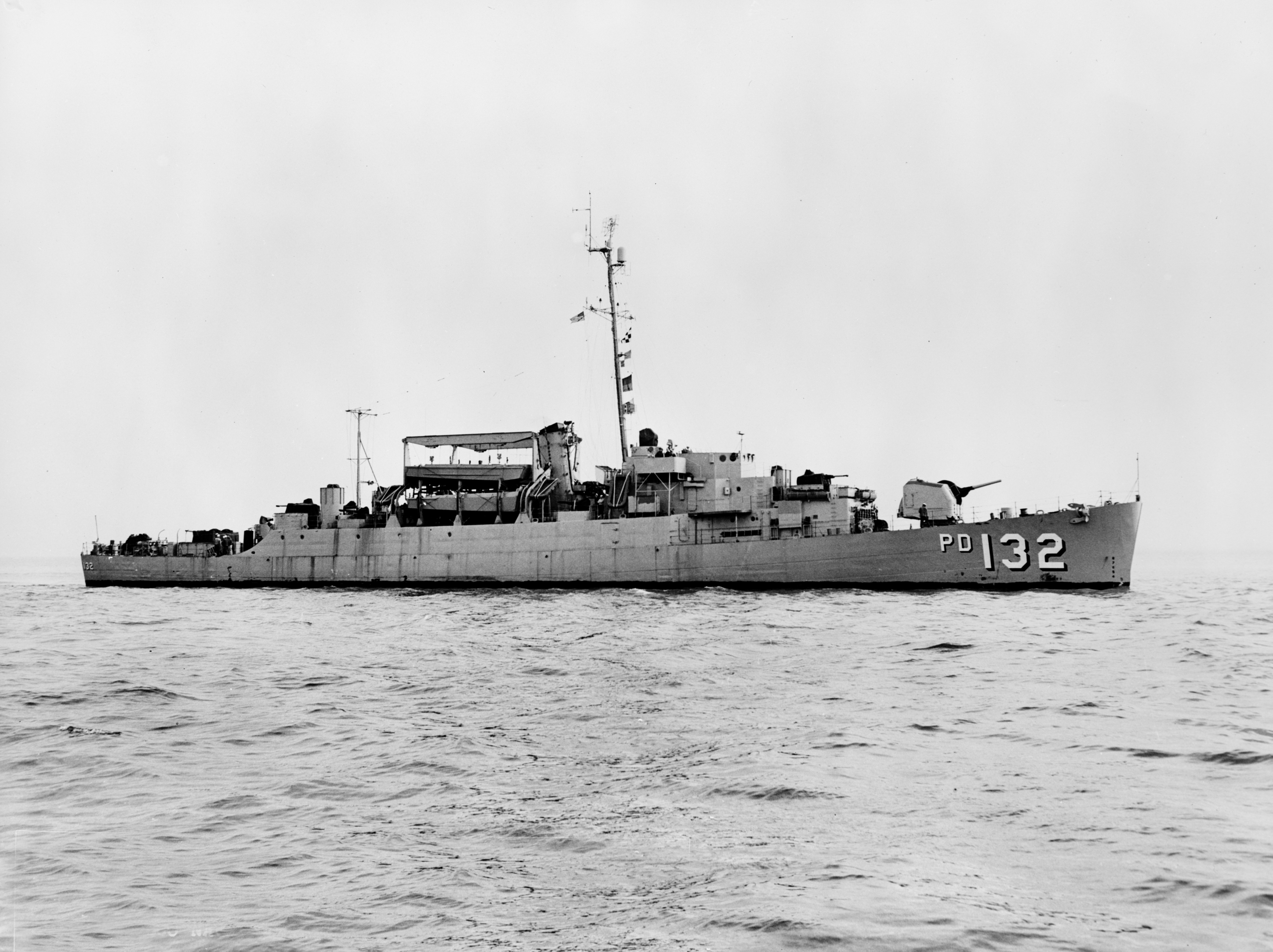 The U.S. Navy high-speed transport USS Balduck (APD-132) off the San Francisco Naval Shipyard, CAlifornai (USA), on 23 March 1954, following a regular overhaul.